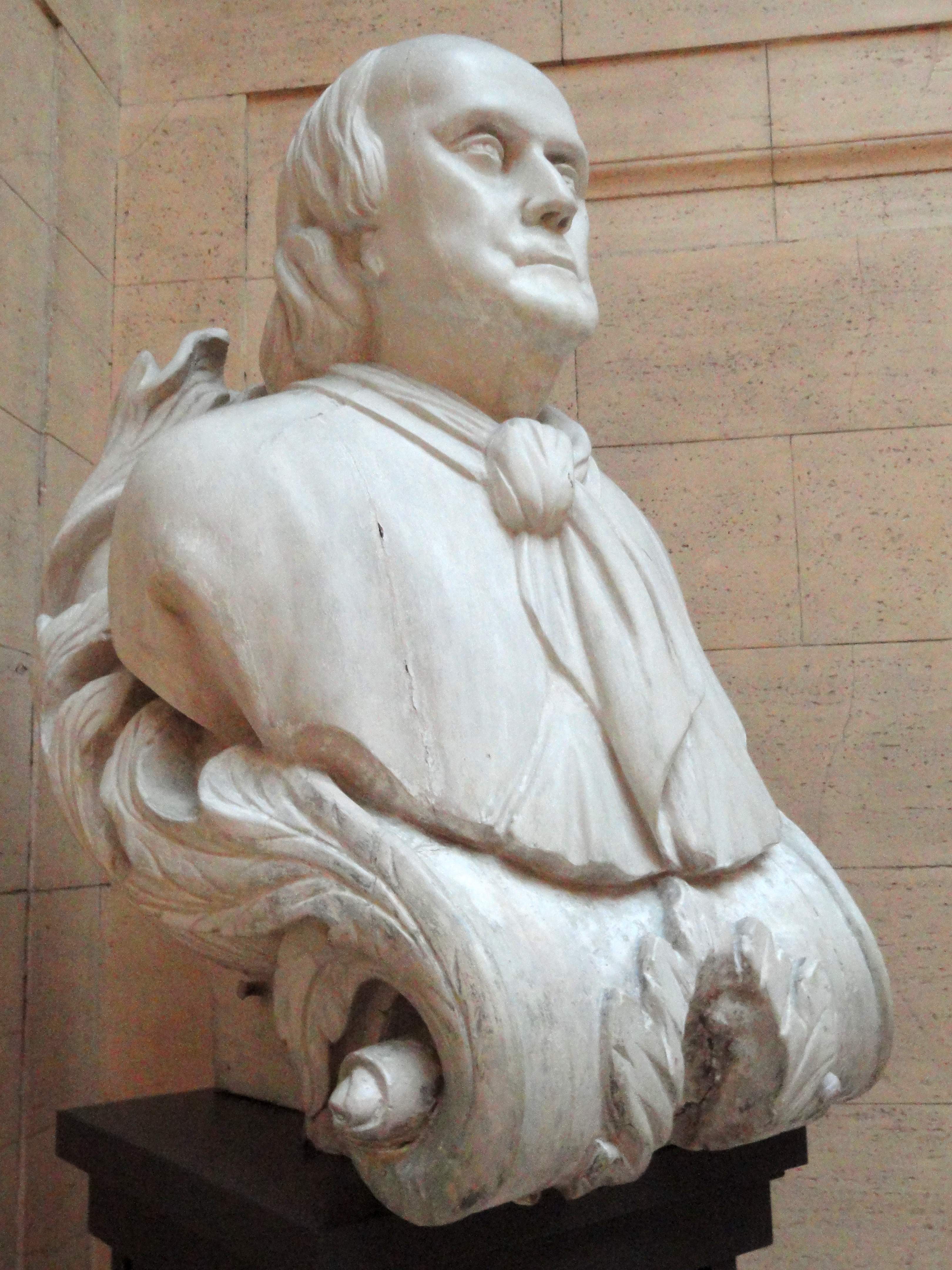 Exhibit in the Franklin Institute, Philadelphia, Pennsylvania, USA.